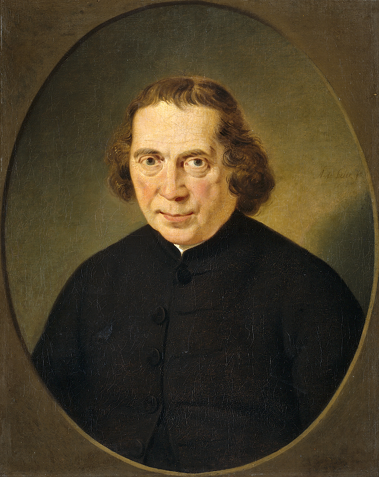 Portrait of Jan Nieuwenhuyzen, a Dutch Mennonite teacher and minister, who in 1784 founded the Maatschappij tot Nut van 't Algemeen. Bust in oval, facing left.